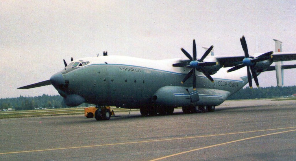 AN-22 Helsinki- Vantaa Airport